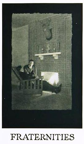 Fraternity section frontispiece, photo, 1922 Minnesota Gopher Yearbook, 1922, p427. Used to introduce the section for all fraternities.